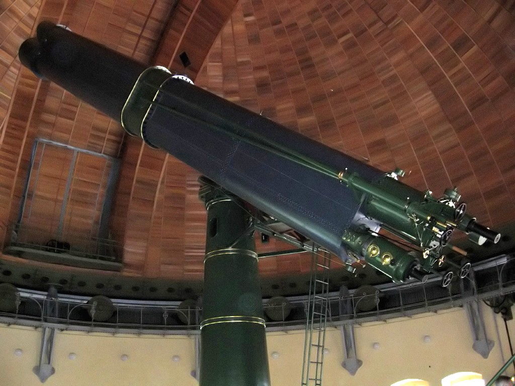 The "Great Refractor" of the Leibniz Institute for Astrophysics, Germany. This double refractor, completed in 1899, consists of a photographic (80cm aperture, 12.1m focal length) and a visual (50cm aperture, 12.6m focal length) telescope in a single tube.